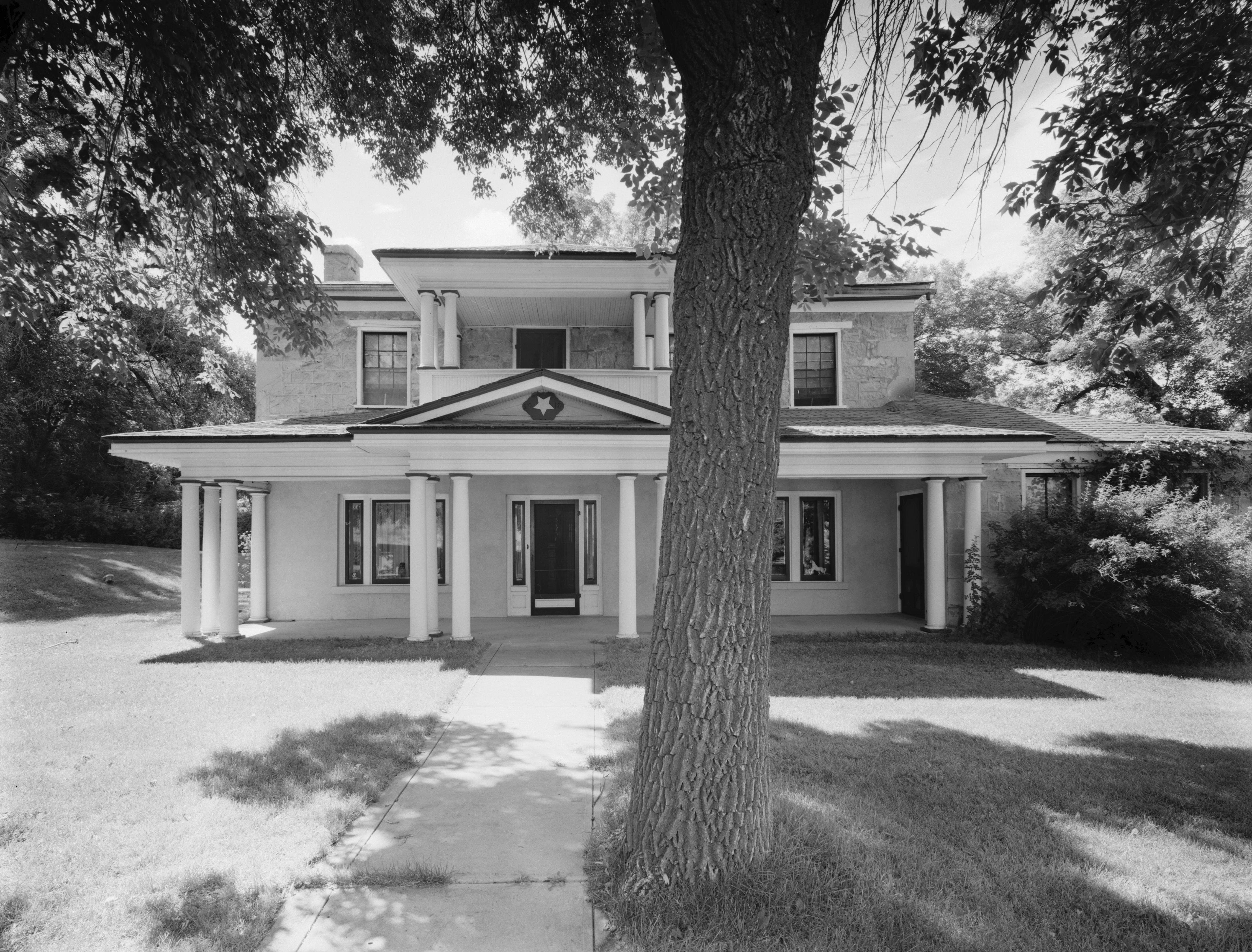 Front of Hampton's Ford Stage Stop, located at the Bear River along State Route 154 northwest of Collinston in Box Elder County, Utah, United States. Built in 1867, it and a related barn are listed on the National Register of Historic Places as "Hampton's Ford Stage Stop and Barn".